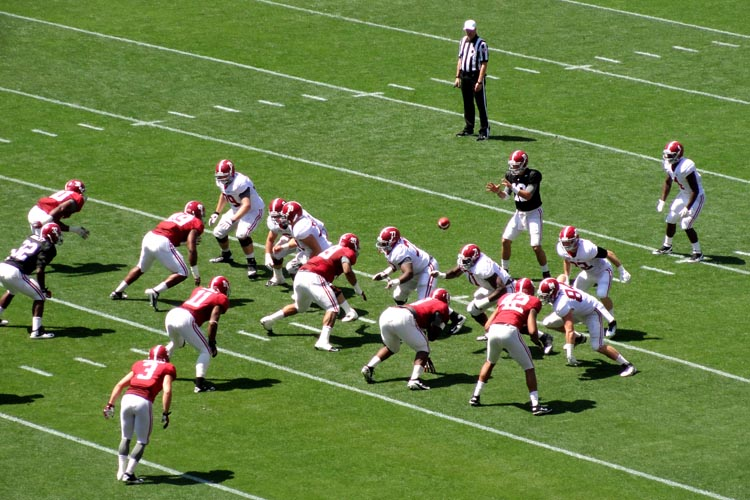 Alabama Crimson Tide football quarterback A. J. McCarron takes a snap during the 2013 A-Day spring football game at Bryant–Denny Stadium in Tuscaloosa, Alabama, USA.